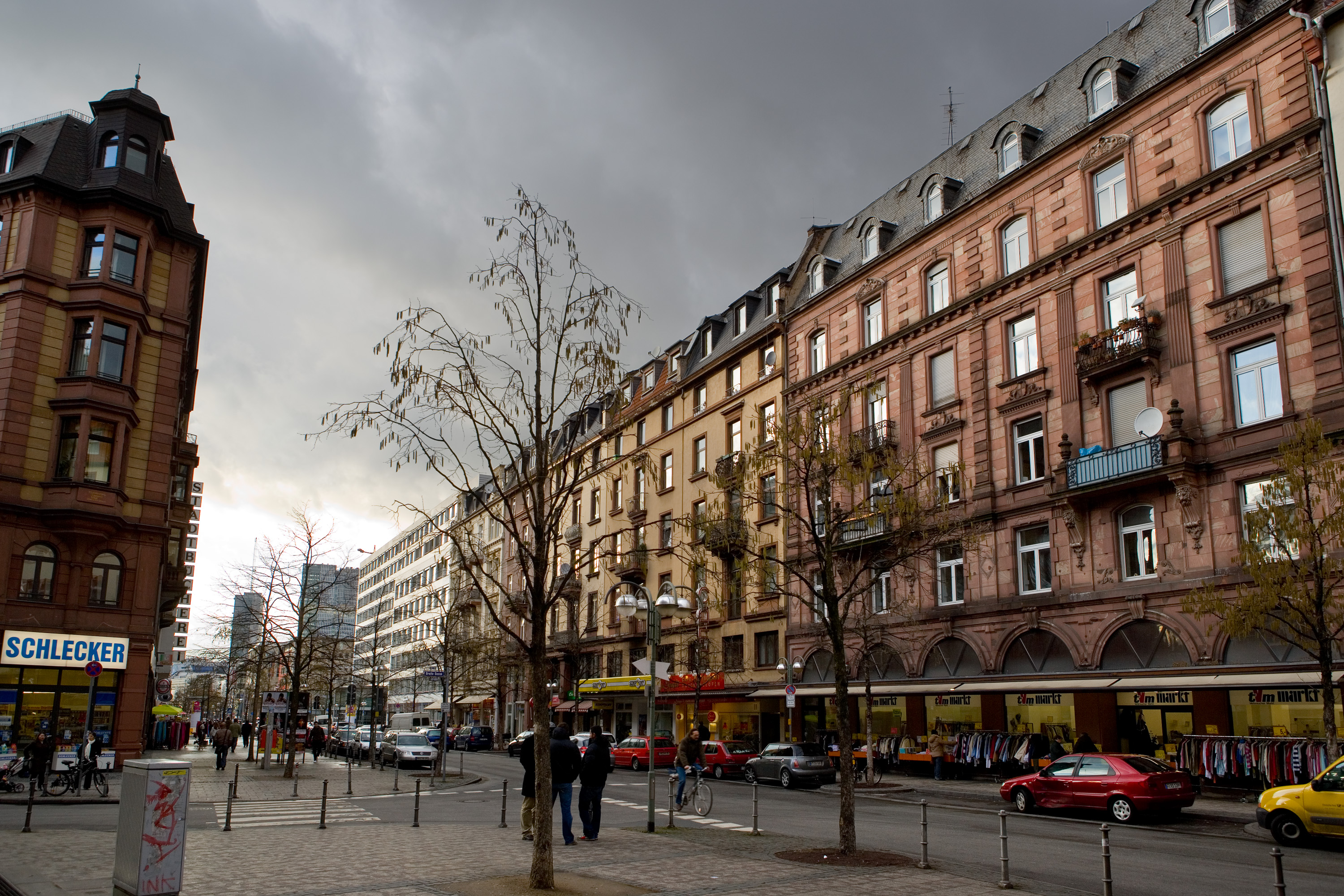 Frankfurt on the Main: Neue Zeil (New Zeil) with historistic residential buildings at the intersection with the Breite Gasse (Broad Lane) as seen to the west